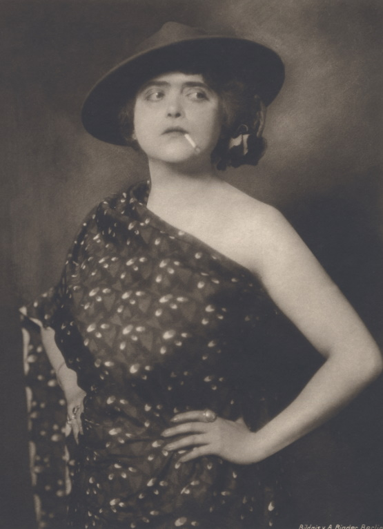 Portrait of German actress, screenwriter, and director Rosa Porten (1884–1972) by Alexander Binder, Berlin.